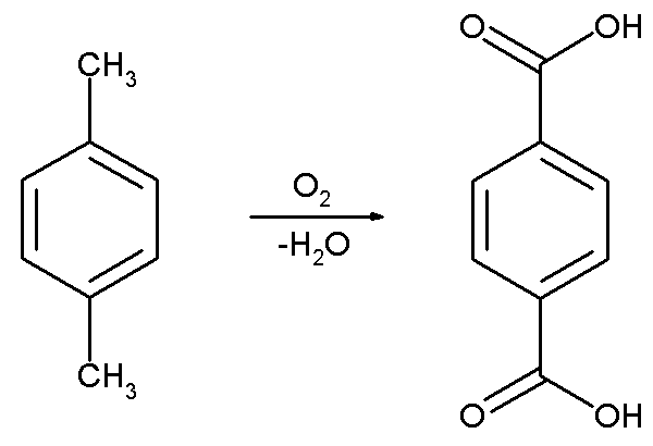 I created the image myself with a chemical drawing program and converted it to png